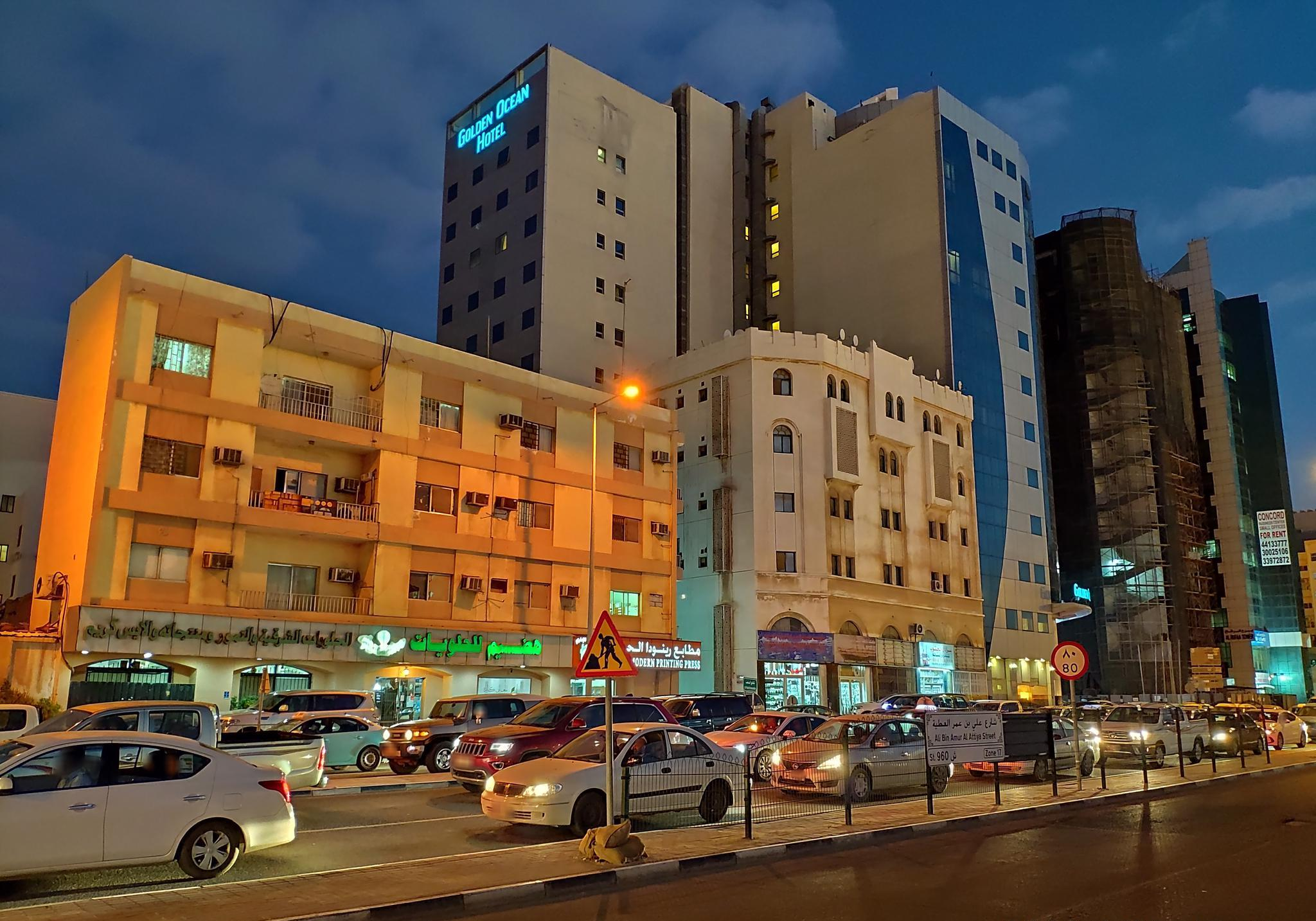 Buildings on Ali Bin Amr Al Attiya Street in the Al Rufaa district of Doha, Qatar.